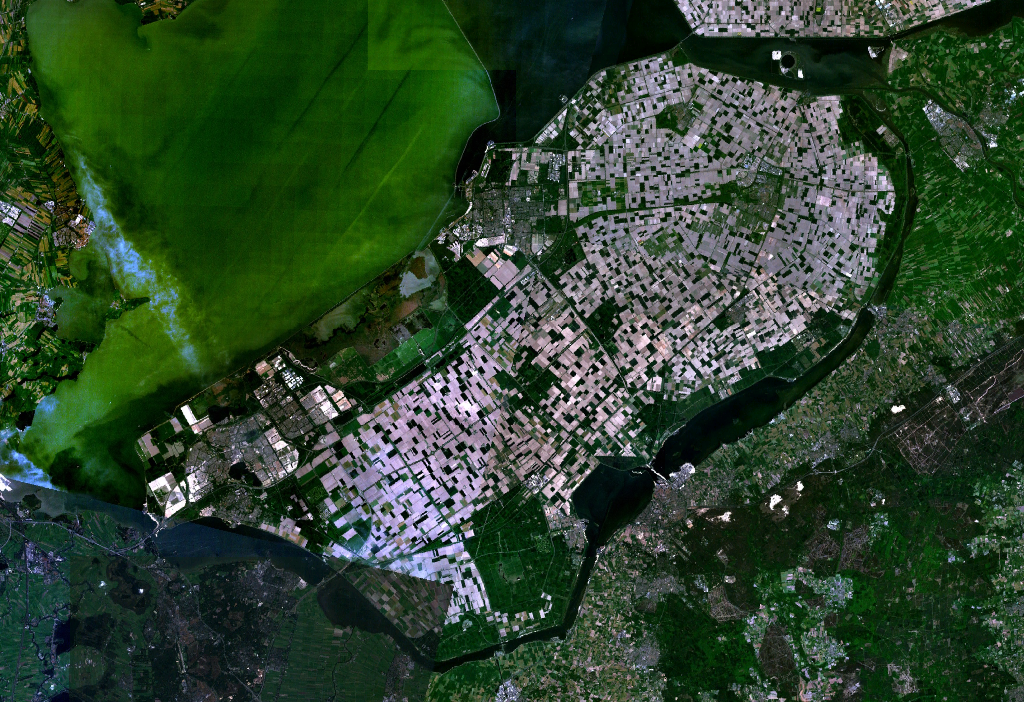 Satellite image of the Flevopolder in the Netherlands. Technically, the Flevopolder consists of Zuidelijk Flevoland (Southern Flevoland), Oostelijk Flevoland (Eastern Flevoland) and the Noordoostpolder (North Eastern Polder). This image shows Southern and Eastern Flevoland.